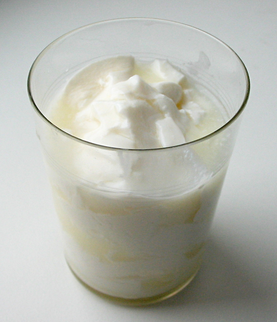 Sour clotted milk